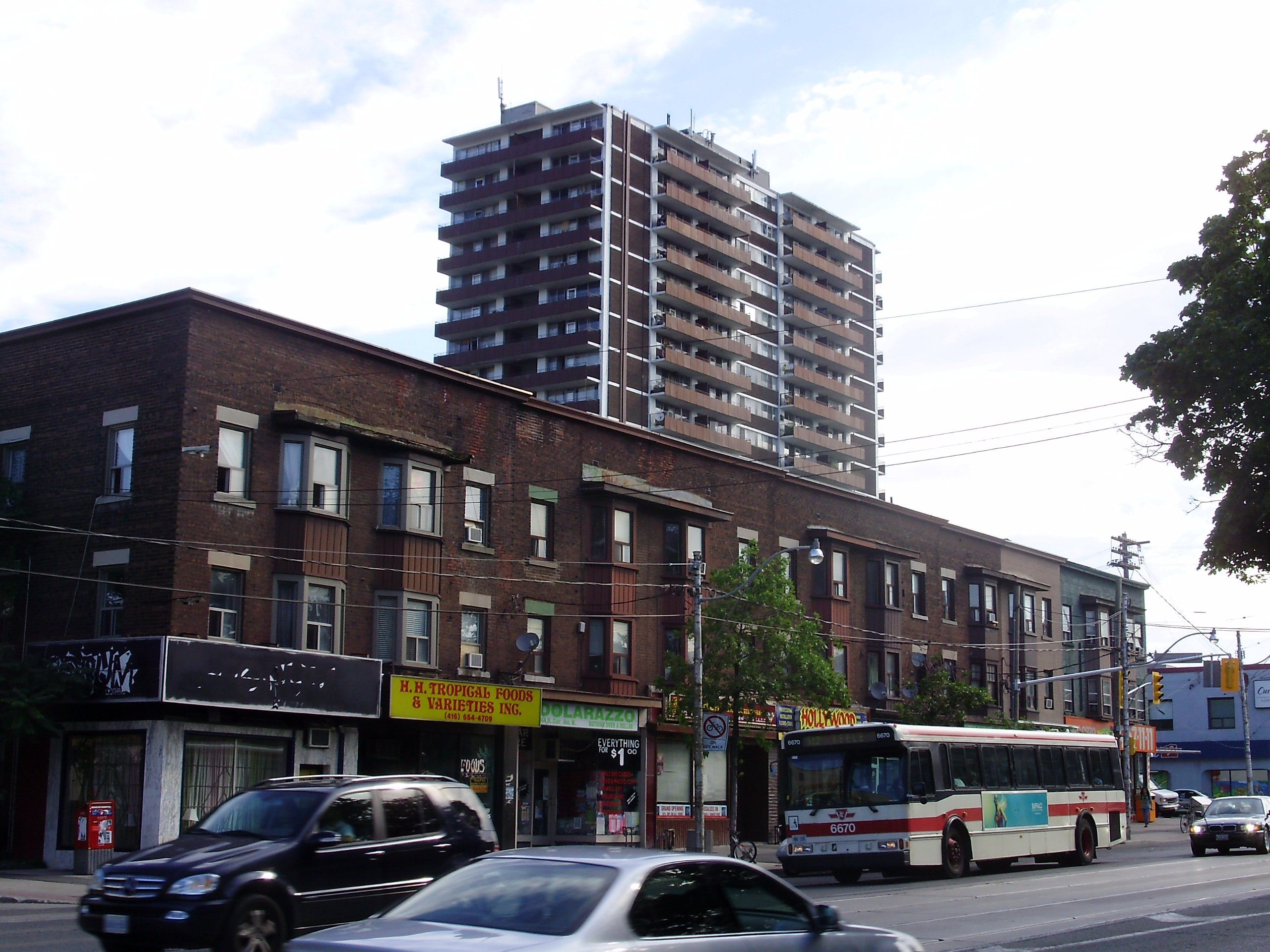 Storefronts line the north side of St. Clair Avenue West in the Oakwood-Vaughan neighbourhood of Toronto, Ontario, Canada.